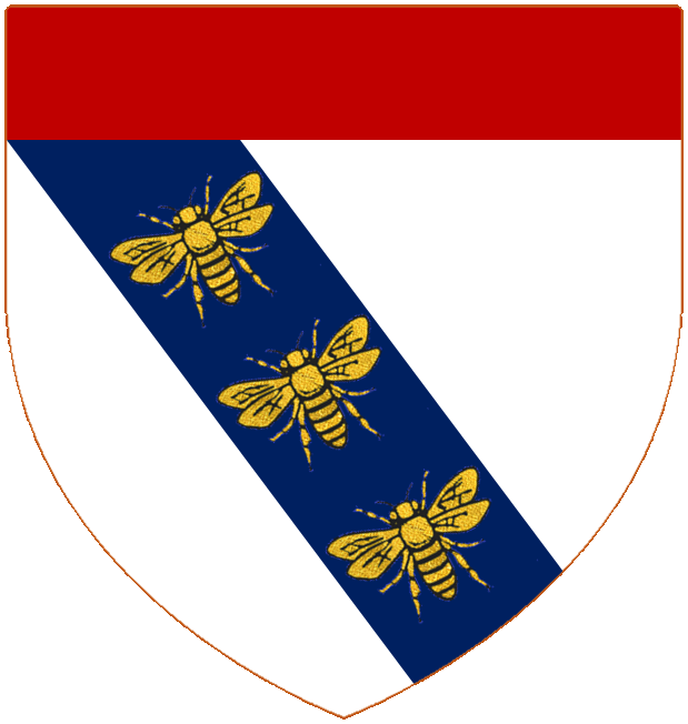 Shield of arms of The Lord Duveen